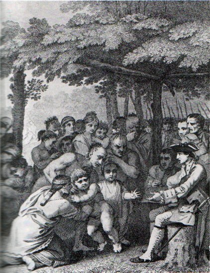 Appears in James Harrod of Kentucky by Kathryn Harrod Mason (1951) with the caption: "The Indians delivering up the English captives to Colonel Bouquet, near his camp at the Forks of Muskingum in North America in Novr. 1764. Library of Congress, Prints and Photographs Division." Event happened in 1764, so author must have been dead more than 100 years. A clearer high resolution colour reproduction is available here: Original print on Ohio Historical Society image website